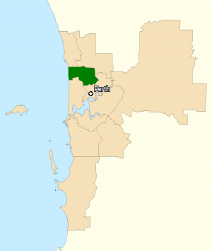 Incorporates or developed using Administrative Boundaries ©PSMA Australia Limited licensed by the Commonwealth of Australia under Creative Commons Attribution 4.0 International licence (CC BY 4.0). Derived from State and Territory Boundaries from the Australian Bureau of Statistics under Creative Commons Attribution 2.5 Australia license (CC BY 2.5 AU)